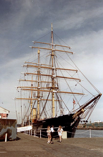 RRS Discovery When the RRS Discovery first came to Dundee, it was berthed in the Victoria Docks.